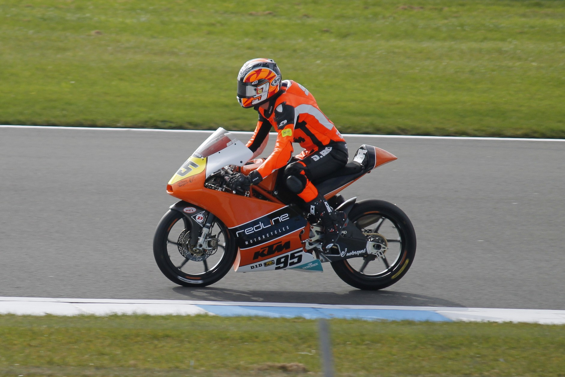 2015 British Motostar Championship Round 1, Donington Park – #95 Scott Deroue – KTM – Redline KTM